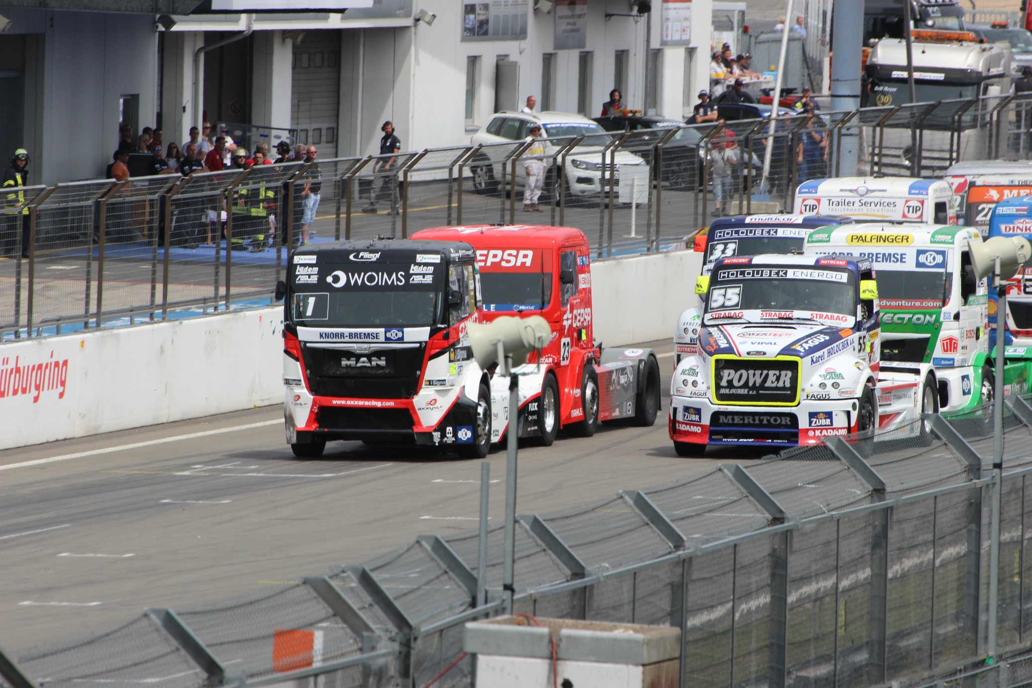 European Truck Racing Championship 2015 (Nürburgring)